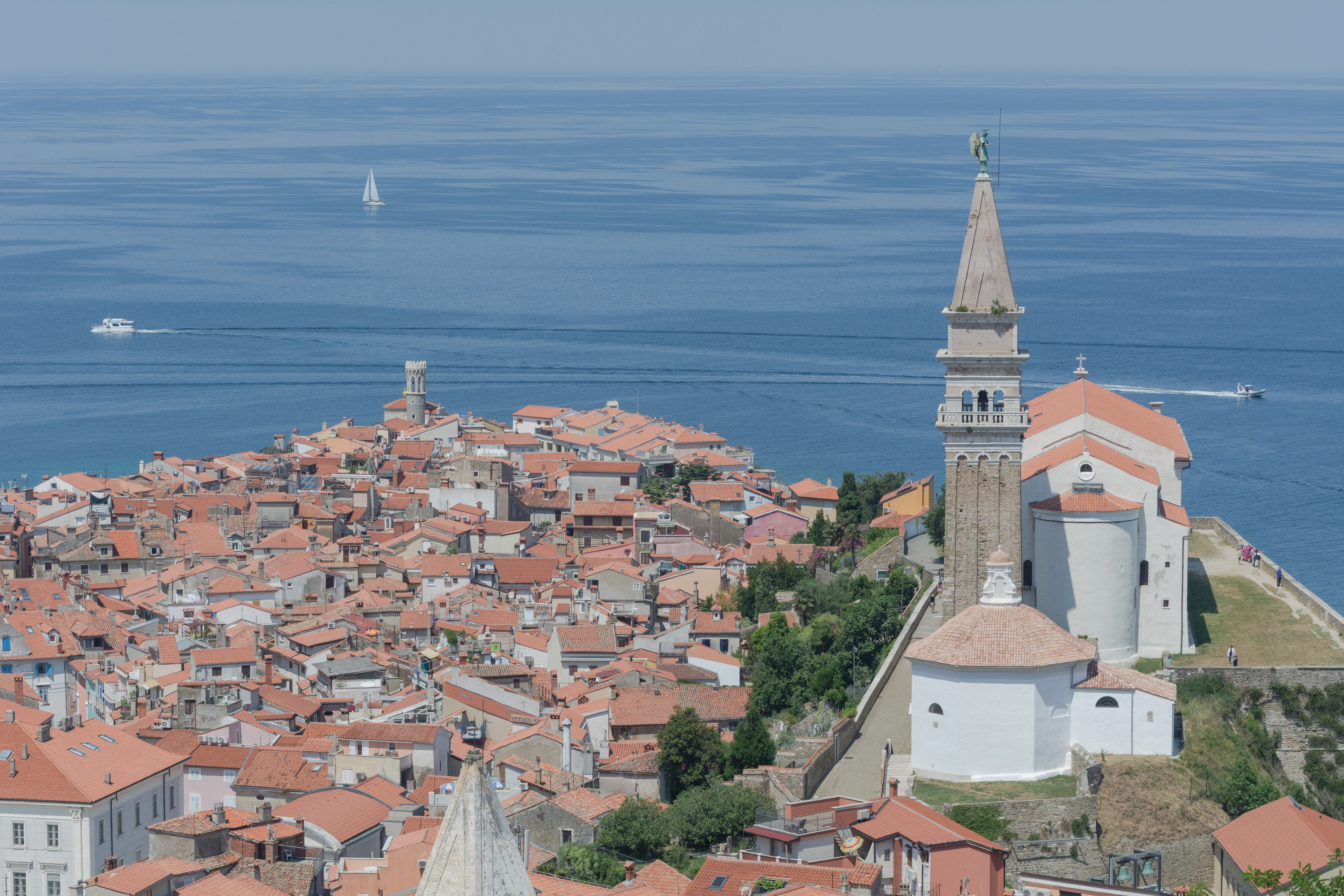 The quarter Punta of Piran is situated on a peninsula.